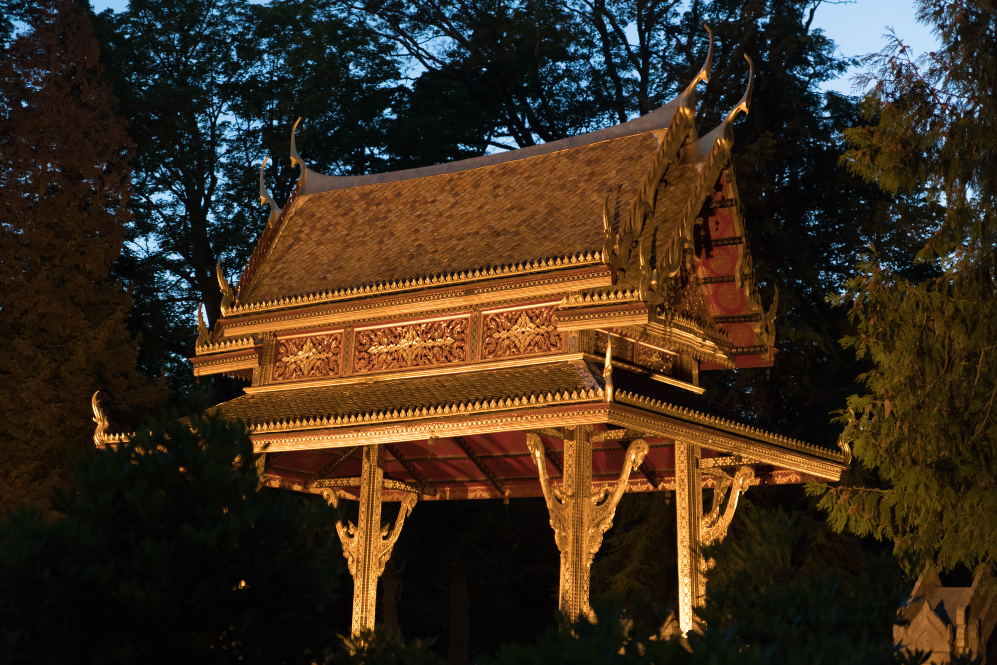 Bad Homburg, Thai Temple